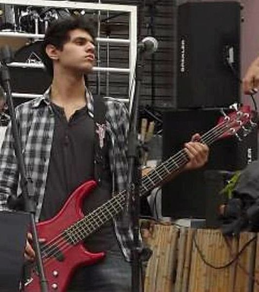 Thiago Modesto playing for Dynastia.